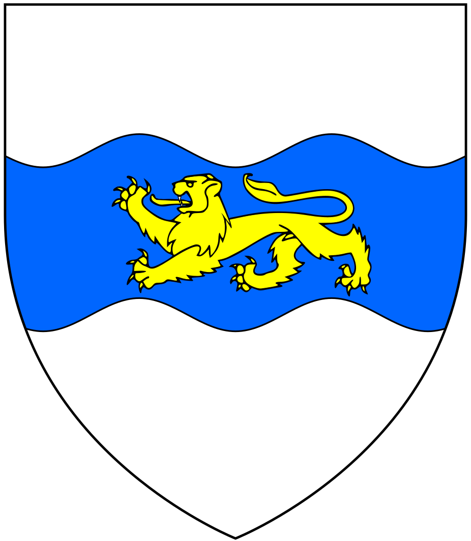 Arms of Lovering: Argent, on a fesse wavy azure a lion passant or. The Lovering family were prominent in North Devon before the 17th century, seated at Hudscott, Chittlehampton; Weare Giffard, etc.